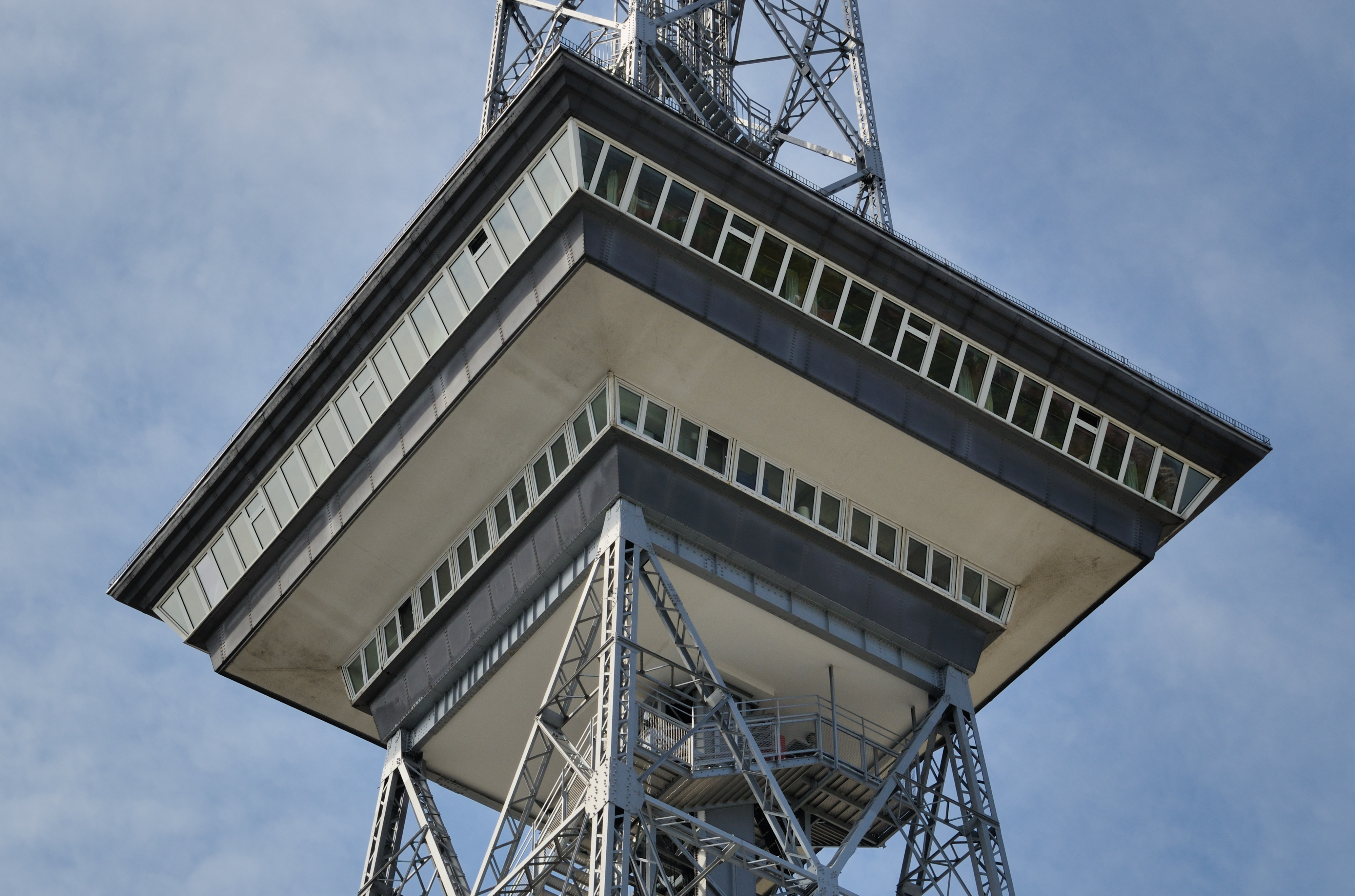 Funkturm Berlin